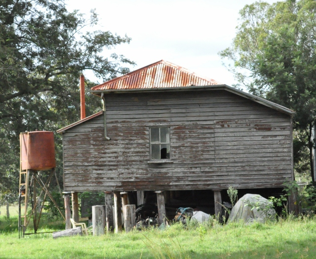 The first dwelling on the pastoral property called "Riverside" located on Curra Estate Road, Curra.